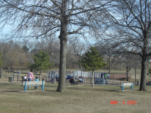 Sooner Park at Bartlesville,OK